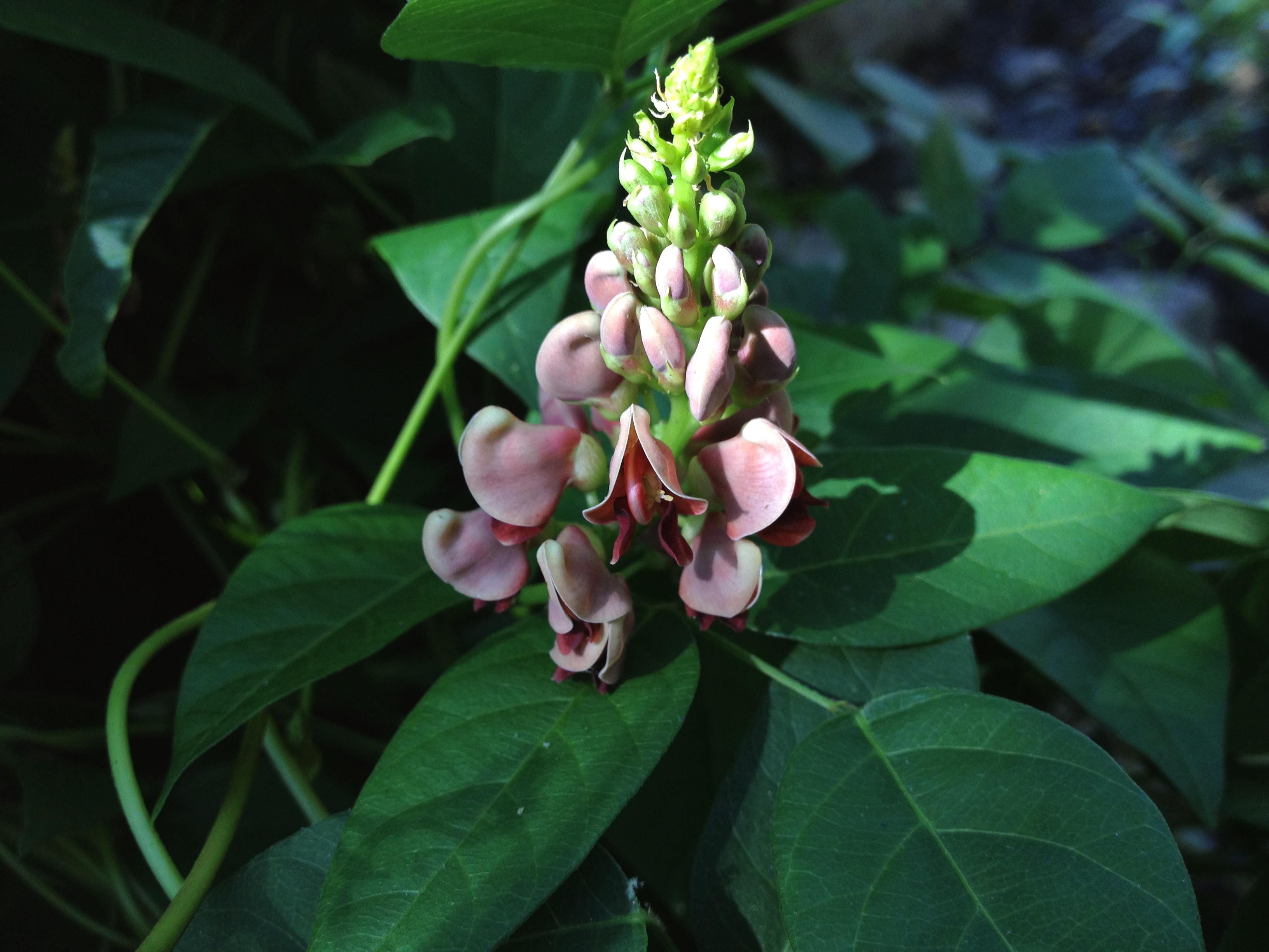 Photo of Apios americana in flower. This is a native plant growing wild Scotts Run Nature Preserve, Fairfax county Virginia, USA. This species is a member of the Fabaceae family.